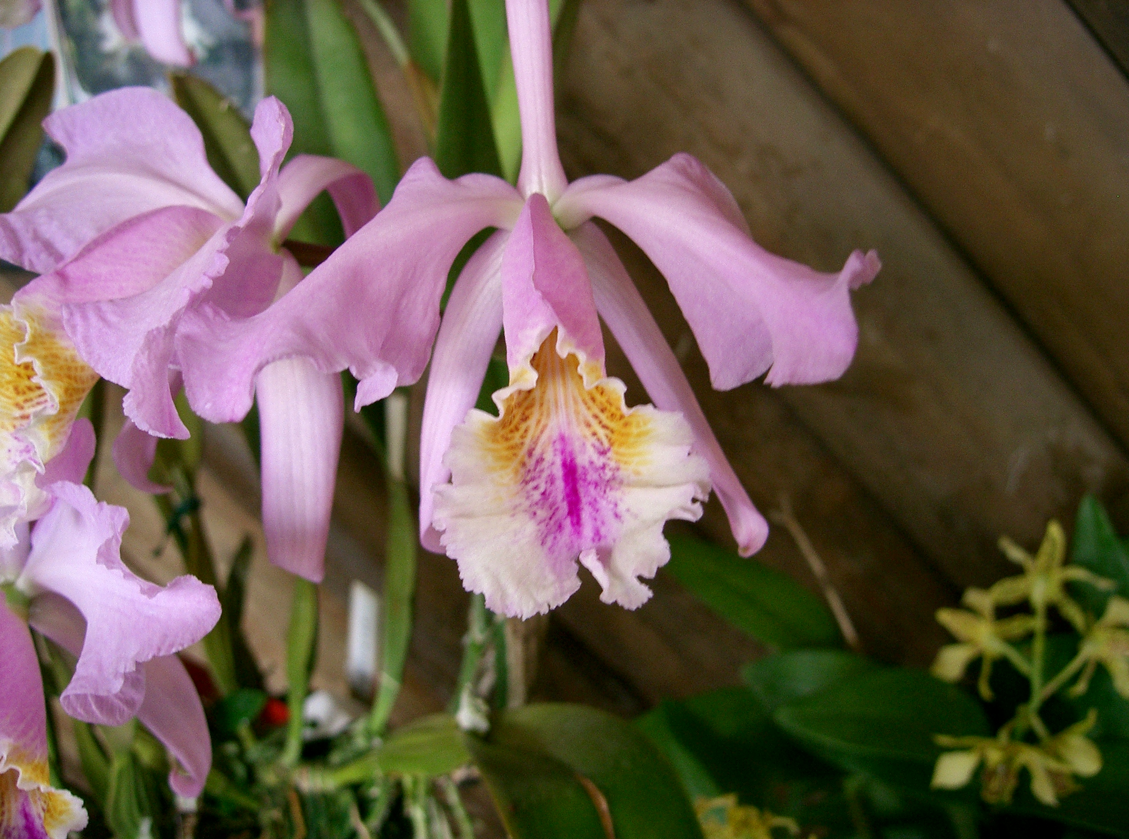 Scientific name Cattleya mossiae Place:Osaka Prefectural Flower Garden,Osaka,Japan